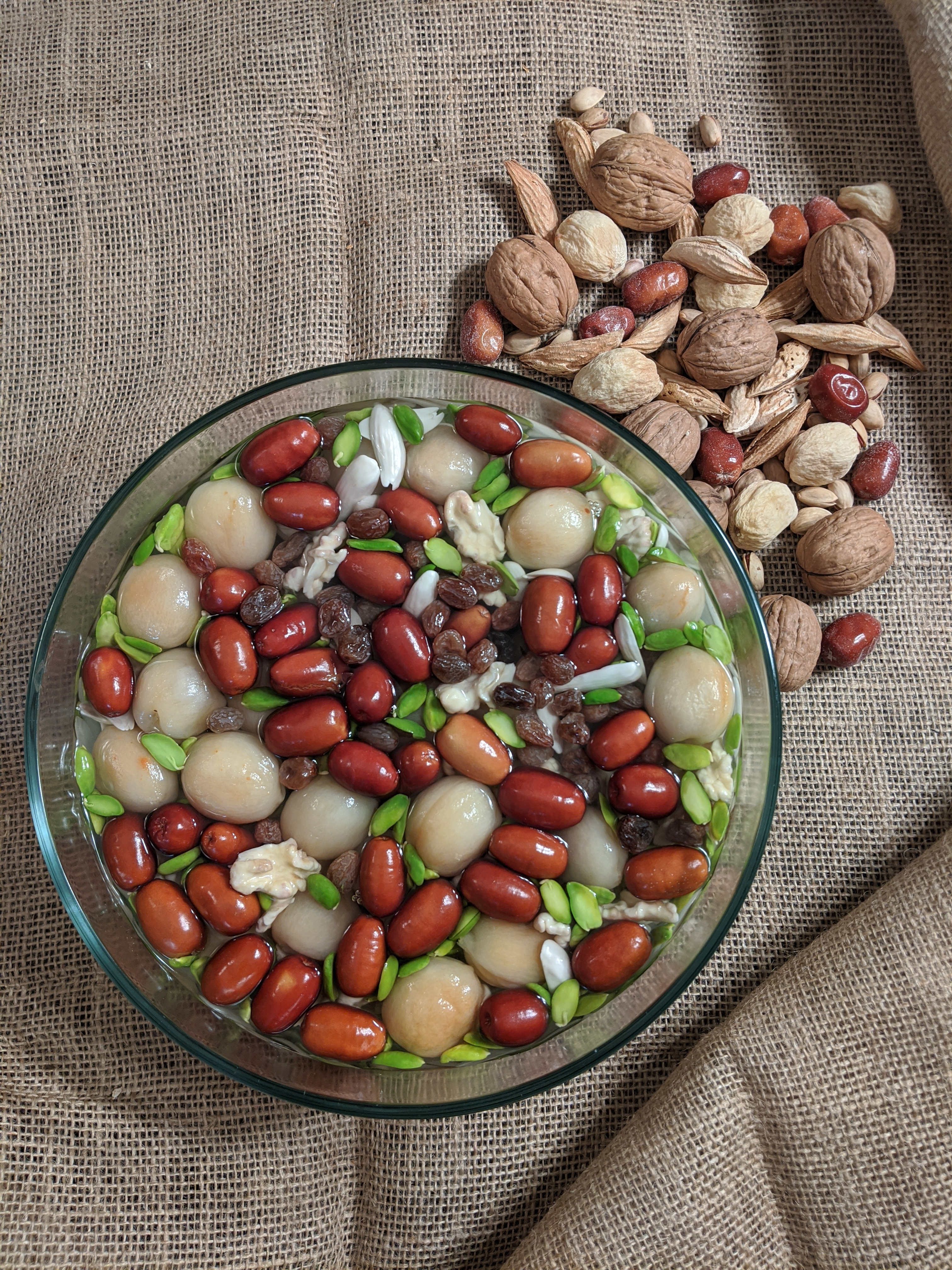 Haft Mewa (Seven Fruit Syrup) is a specialty of Nowruz in Afghanistan. It is made of seven different fruits (raisin, dried apricot, oleaster, walnut, pistachio, almond, apricot kernel).